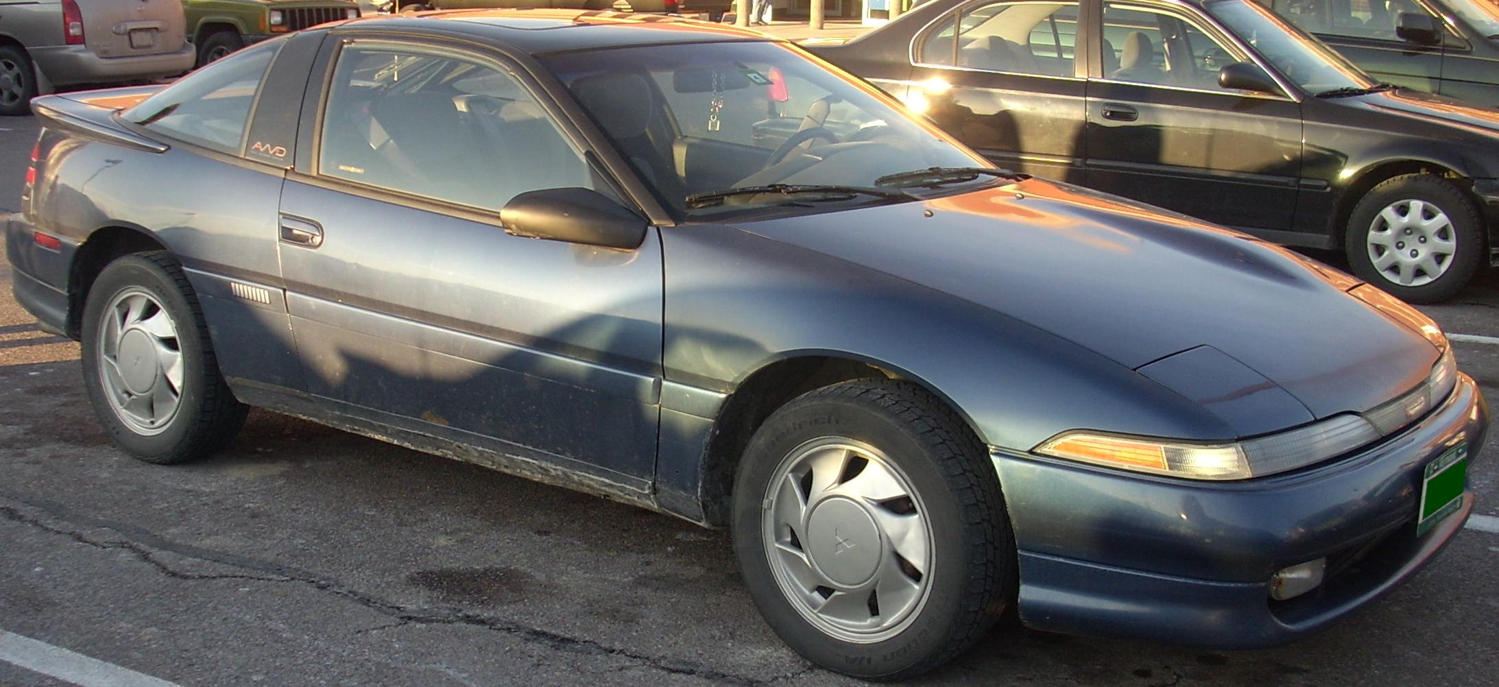 1990-1991 Mitsubishi Eclipse photographed in Williston, VT, USA.